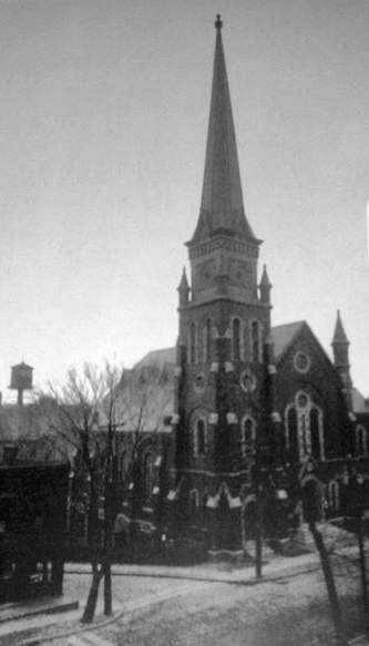 First Congregational Church of Albany, NY, USA, building used from 1866–1917. Since demolished.